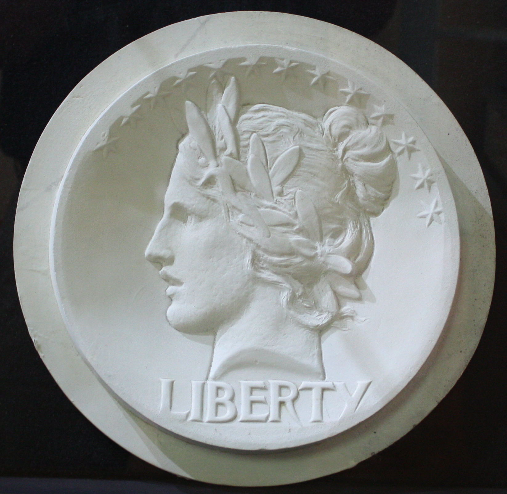 Plaster model for the once cent piece, designed by Augustus Saint-Gaudens; on display at St. Gaudens National Historic Site, Cornish NH. With a laurel wreath added, the design was later modified for the gold eagle coin.